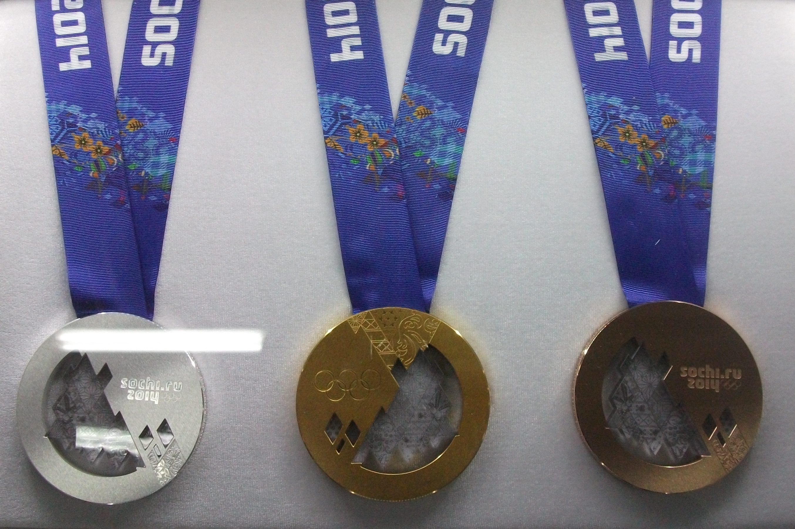 Samples of the Olympic medals XXII of the Olympic winter Games 2014 in Sochi